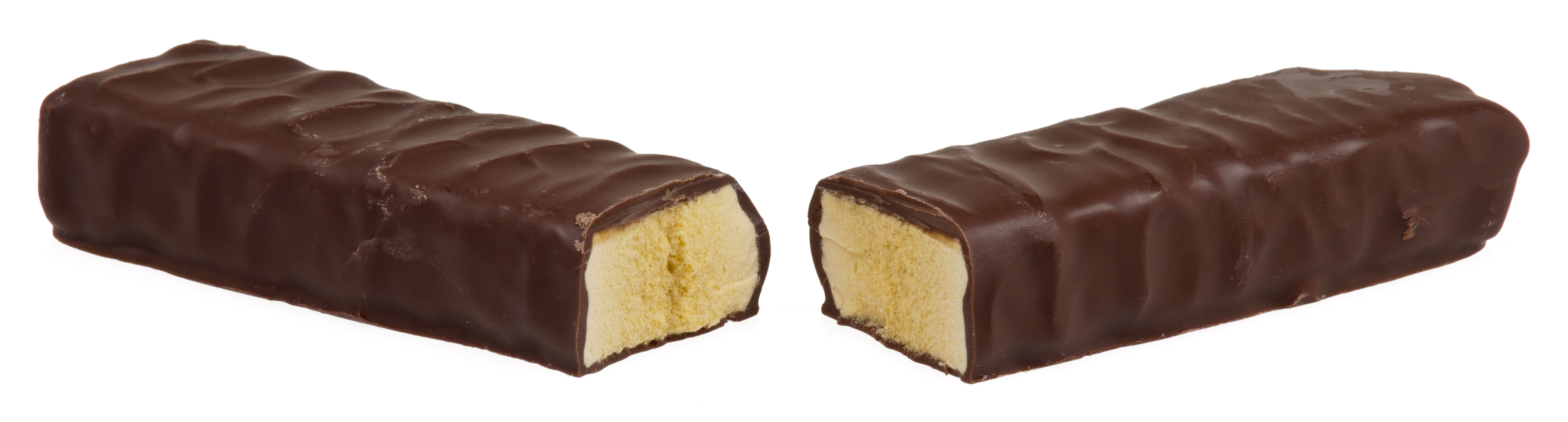 An Australian Violet Crumble chocolate bar shown split in half.